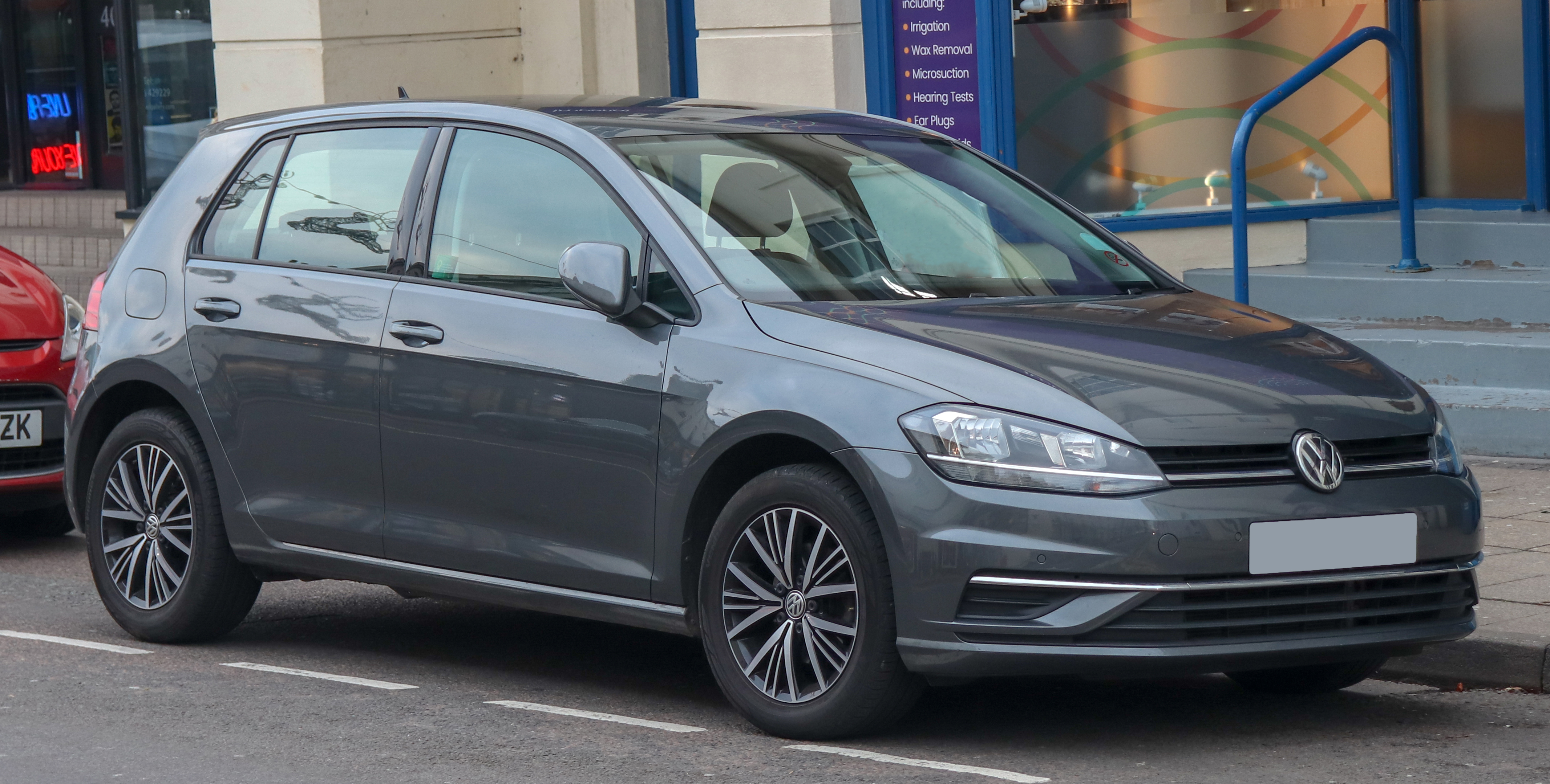 2018 Volkswagen Golf SE Navigation TSi BlueMotion 1.0 Front Taken in Leamington Spa